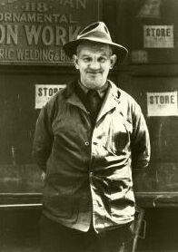 This is a photo of the founder of J.Sussman, Inc.